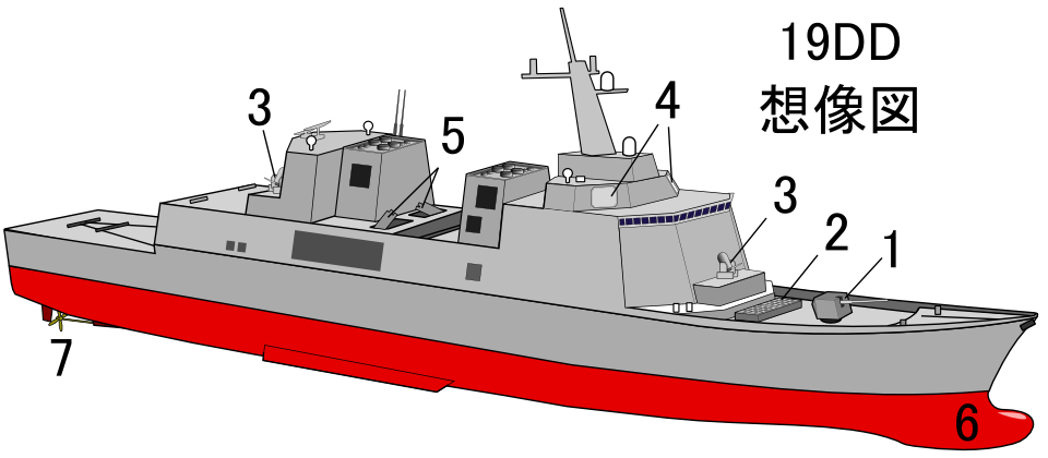 Japan Maritime Self Defense Force's next Destroyer "DD19"